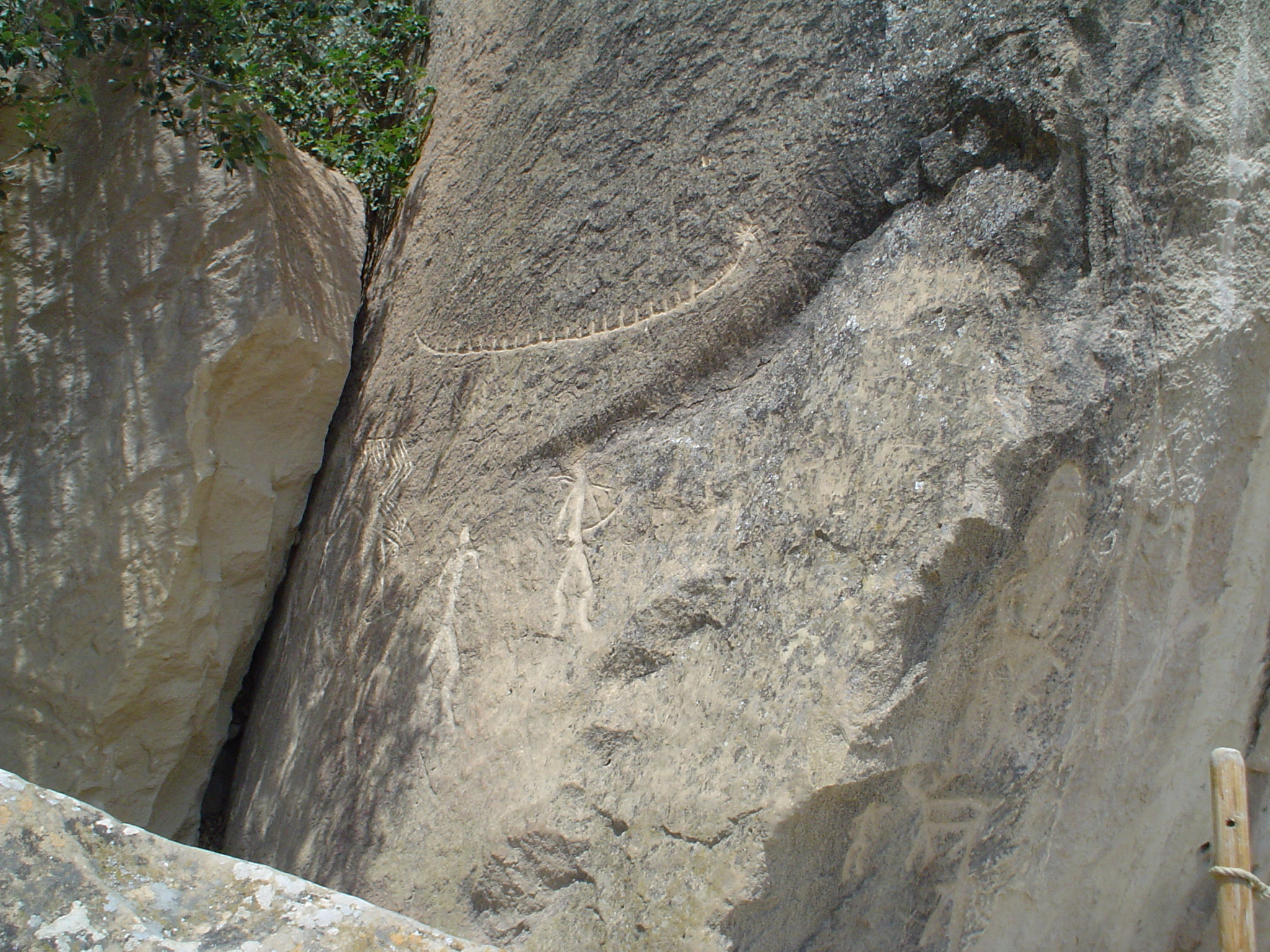 2008-07-14 Qobustan, Azerbaijan: Petroglyphs of a reed boat and men. The reed boat is similar to those depicted in cave paintings in Scandinavia, something that made Thor Heyerdahl to theorise that the Scandinavians came from the area that today is Azerbaijan. In the Qobustan Petroglyph Reserve there are more than 6,000 petroglyphs carved by the hunter-gatherers that lived in these caves 12,000 years ago. At that time the Caspian Sea was a lot higher and washed against the lower rocks in the hill.